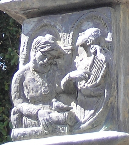 The Knesset Menorah, Jerusalem (detail - Left side of the Menorah)